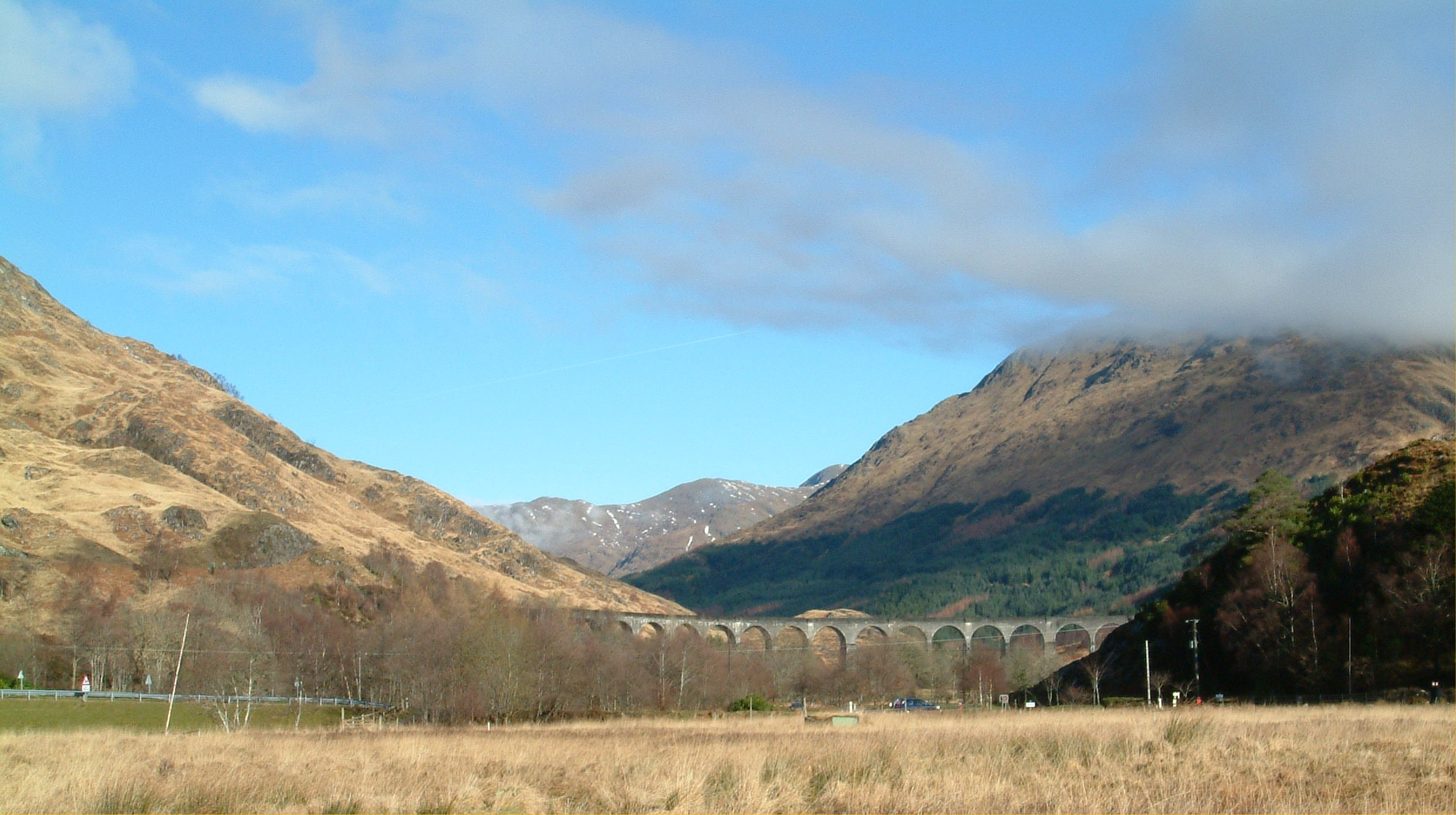 Glenfinnan Viaduct, Western Scotland.